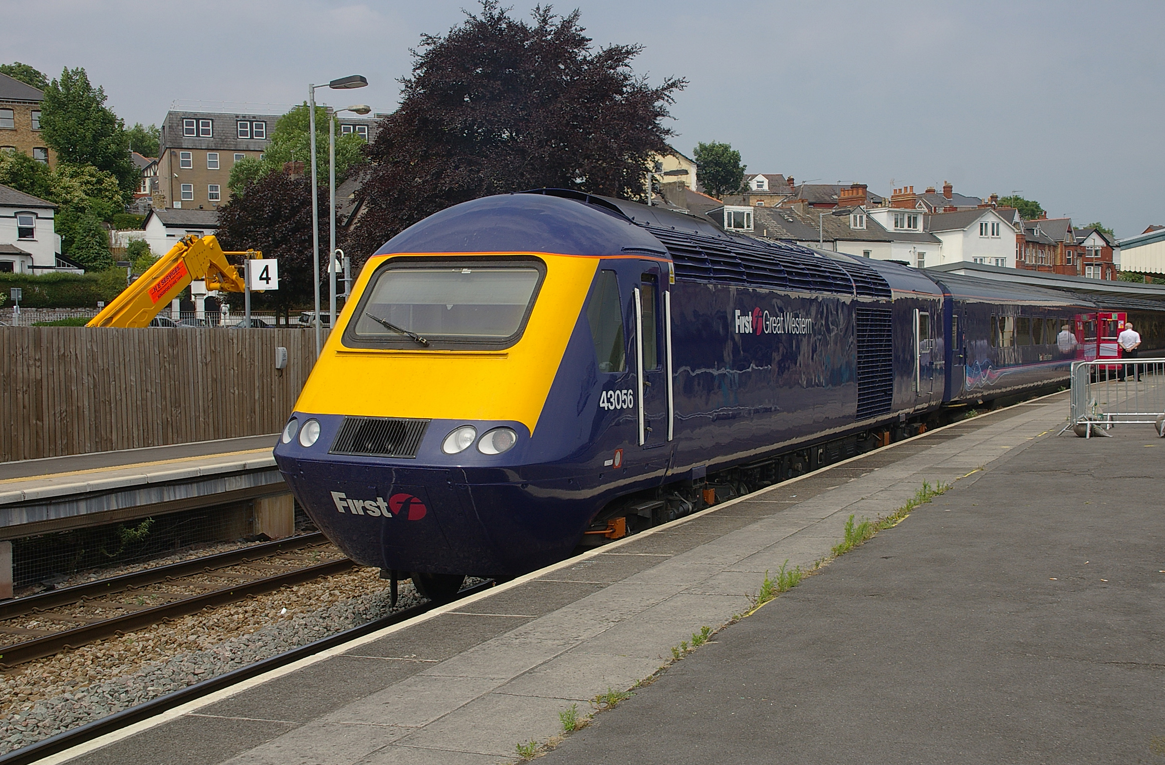 First Great Western 43056 waiting at Newport railway station in Wales with a service to London Paddington.